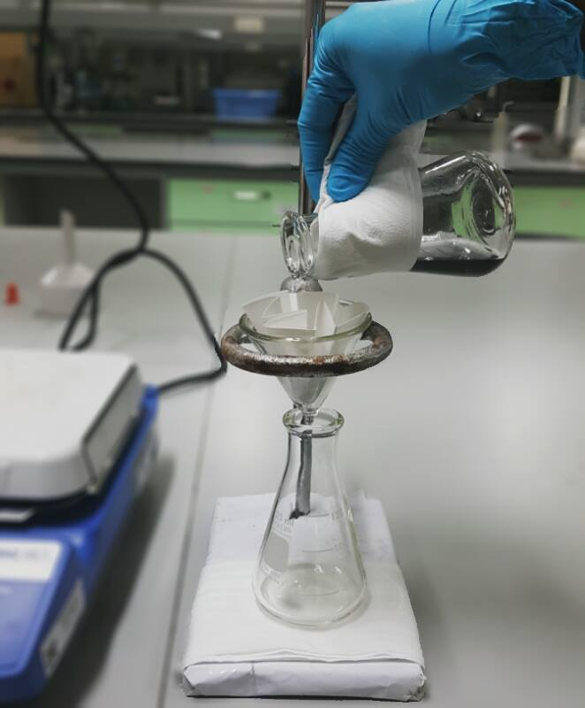 Hot Filtration performed for the separation of solids form a hot solution